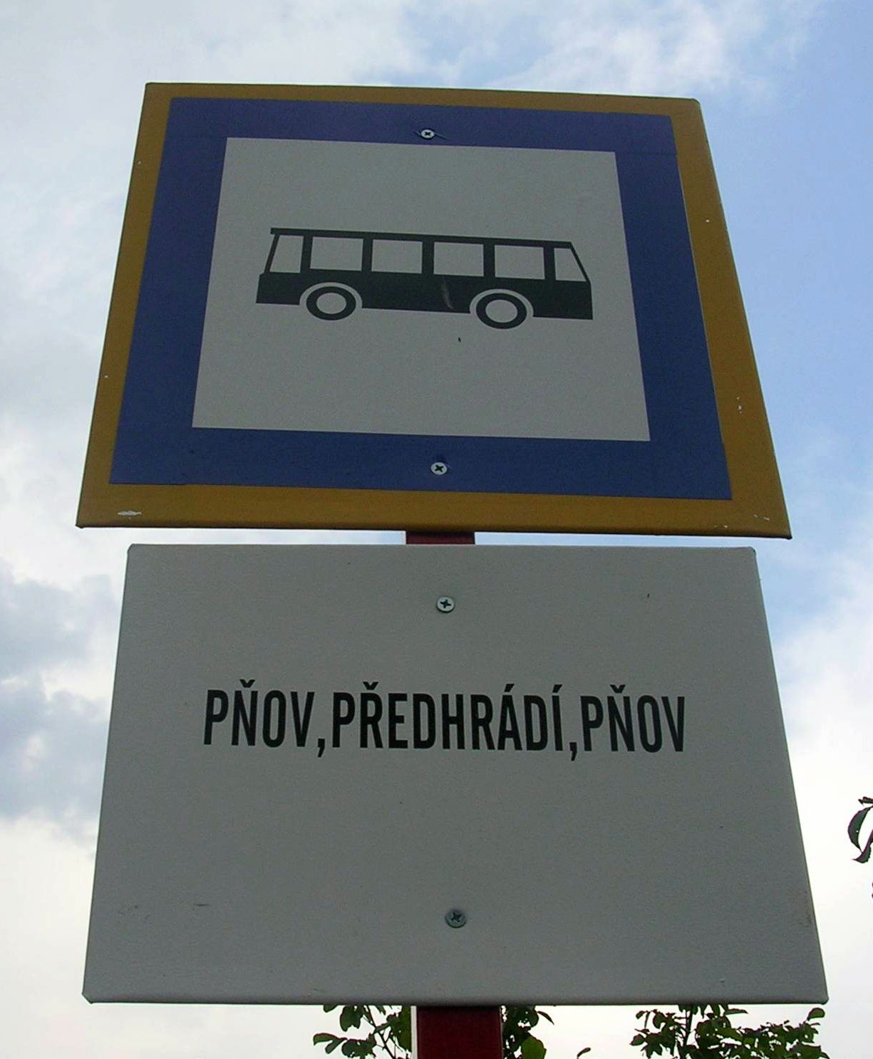 Bus stop, Pňov-Předhradí, the Czech Republic.